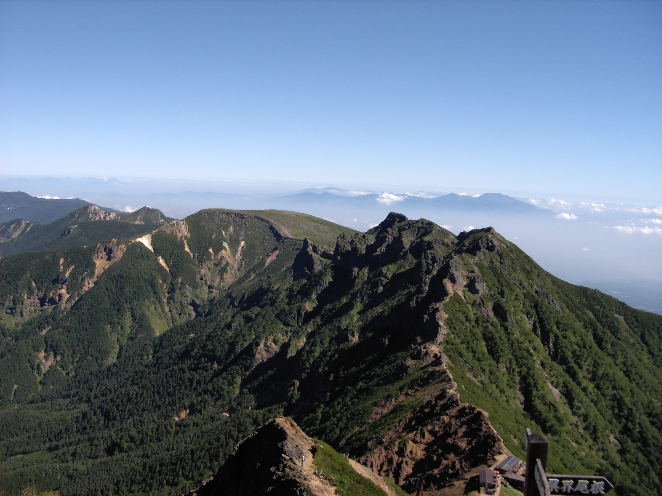 Mount Io and Mount Yoko, from Mount Aka, Yatsugatake Mountains, Honshu, Japan.